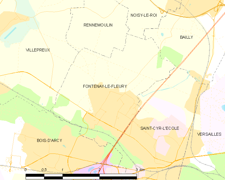 Map of French municipality Fontenay-le-Fleury